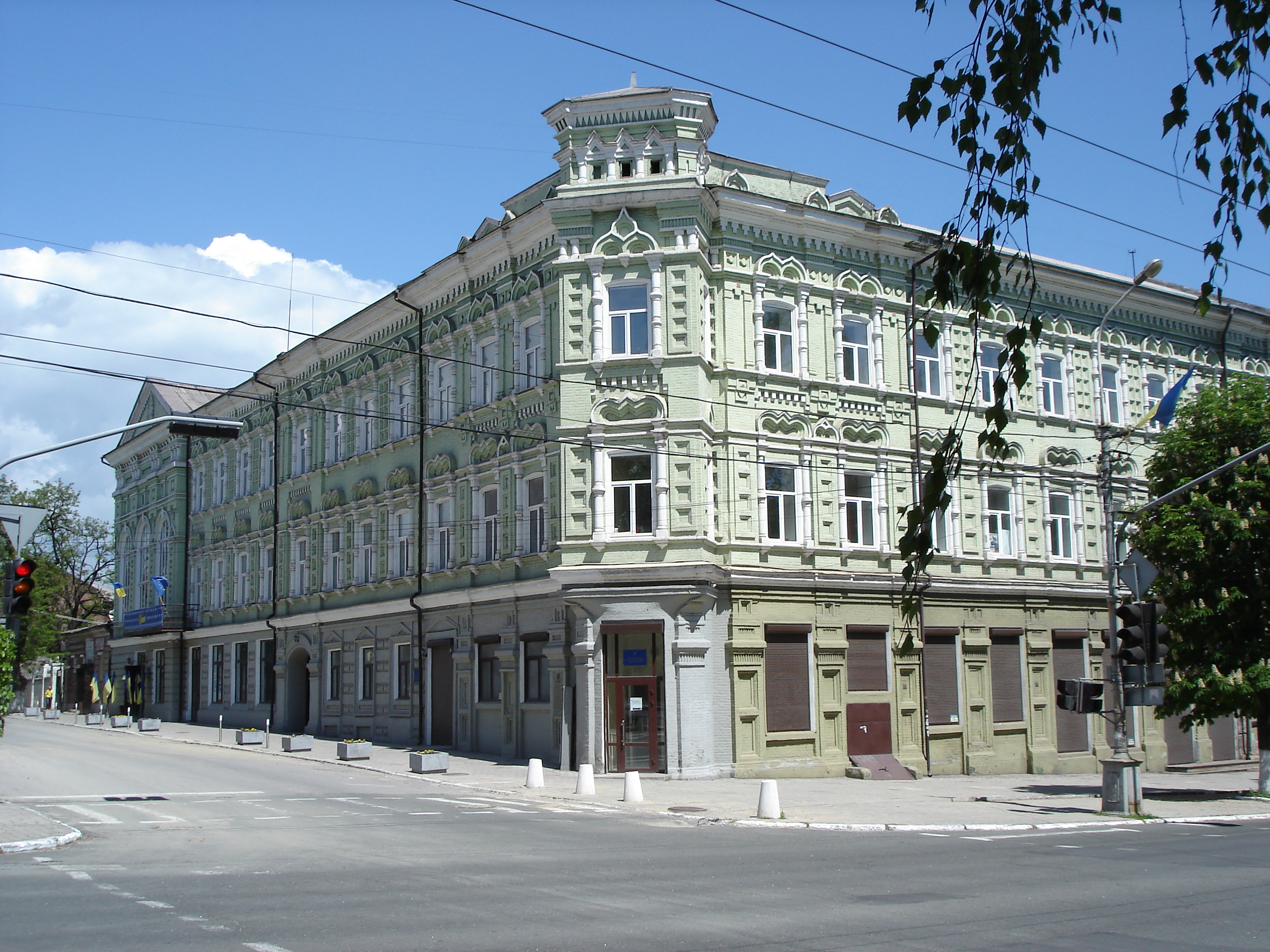 Built in 1897 Palace of Culture "Youth" before the revolution - hotel "Continental" and merchant meeting room.